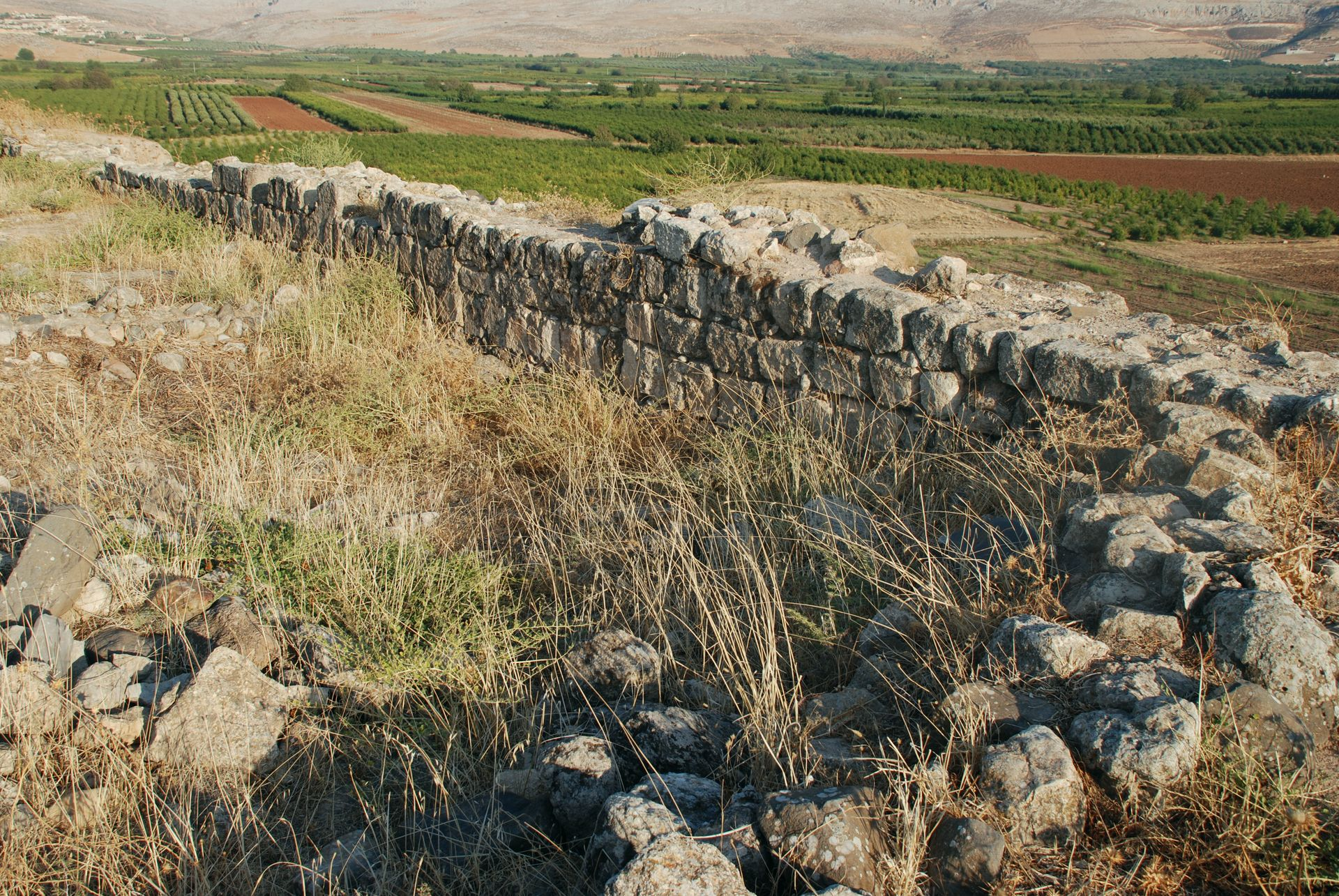 Tell Ain Dara, south of Afrin, Syria. Hellenistic wall